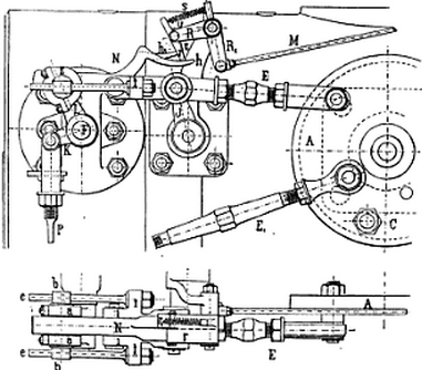 Joseph Farcot's automatic variable expansion-gear, an attachment to a Corliss engine, exhibited at the Paris International Exhibition of 1878